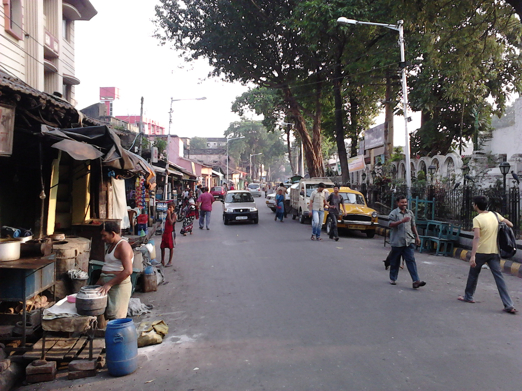 Keoratala Burning Ghat or Crematorium in Kolkata located on Tollygunge road and easy to reach burning ghat in South Kolkata. Citizens of south Kolkata always prefer Keoratala Swasan Ghat for the funeral process of dead bodies in Kolkata. There are four electric ovens to cop up with the rushes of dead bodies and the management of Keoratala Burning Ghat at Kolkata maintained the funeral place very clean and clear. It is maintainied by the Kolkata Municipal Corporation. This media file is uploaded with India loves Wikipedia event.